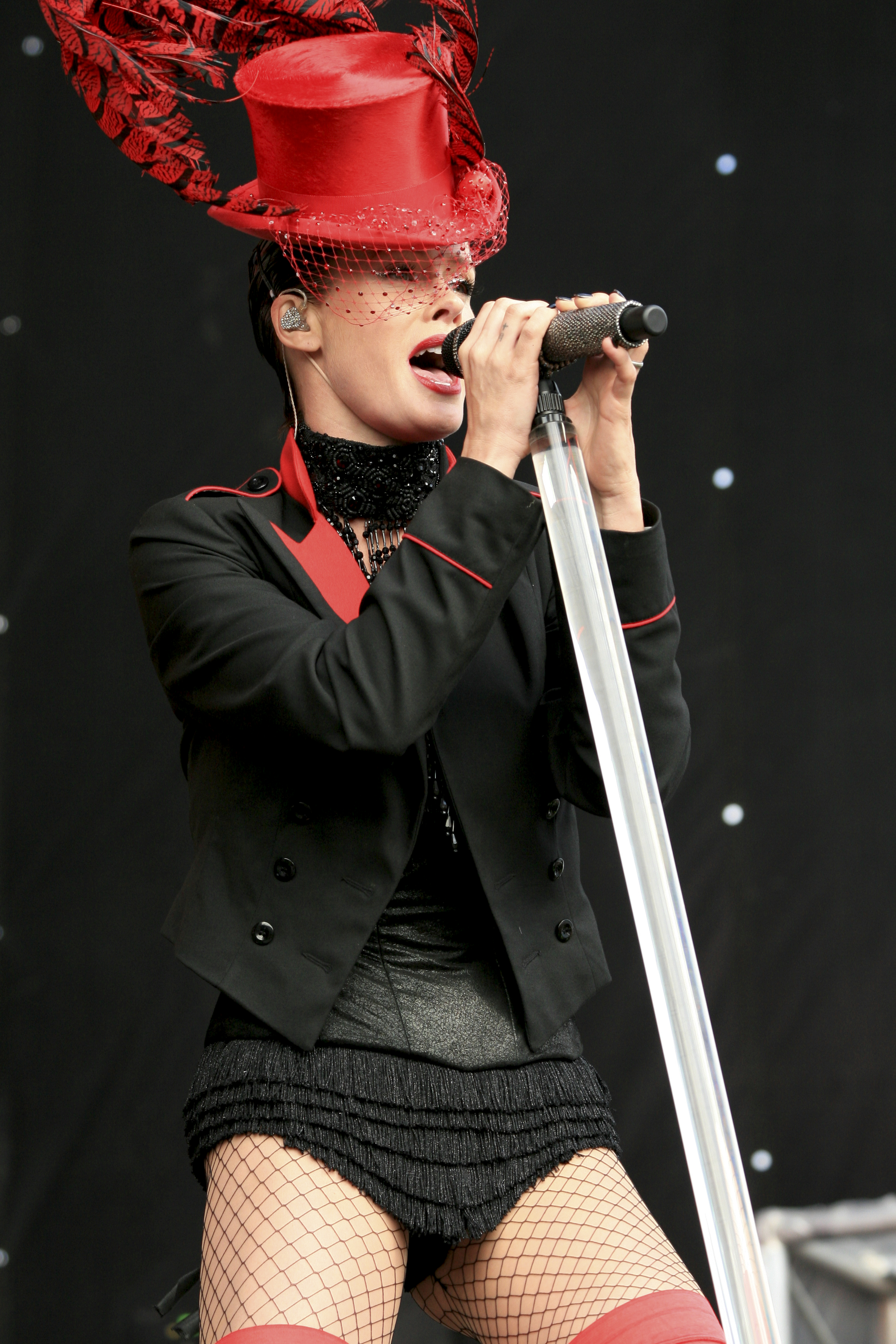 Lene Nystrøm Rasted, from Aqua, at Grøn Koncert.